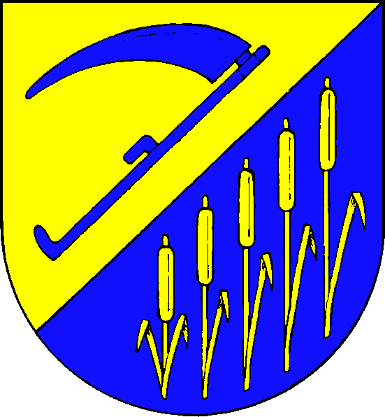 Coat of arms of the municipality Wees in Schleswig-Holstein, Germany.